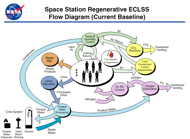 A flowchart diagram showing the interations between the different segments of the International Space Station's Environmental Control and Life Support System.